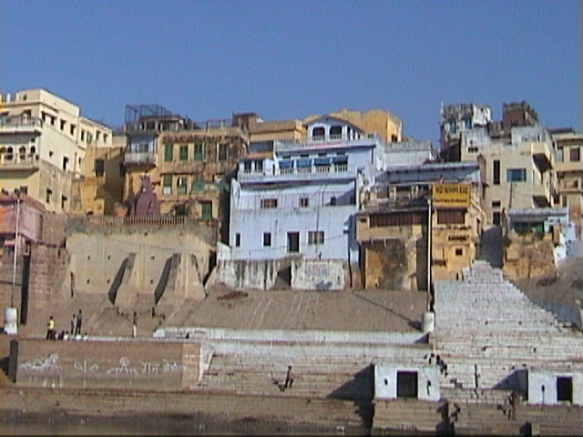 Hindu culture, have attributed supreme importance to the preservation of tradition Classical civilizations, and especially the Indian one, have attributed supreme importance to the preservation of tradition. Its central idea was that social institutions, scientific knowledge and technological applications need to use "heritage" as a "resource". Using contemporary language, we would say that ancient Indians considered, as social resources, both economic assets (like natural resources and their exploitation structure) and factors promoting social integration (like institutions for preserving knowledge and maintaining civil order). Ethics considered that what had been inherited should not be consumed, but should be handed over, possibly enriched, to successive generations. This was a moral imperative for all, except in the final life stage of sannyasa